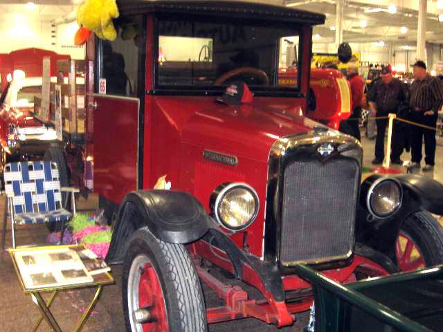 '27 International 1-ton stakebed, shot at local car show